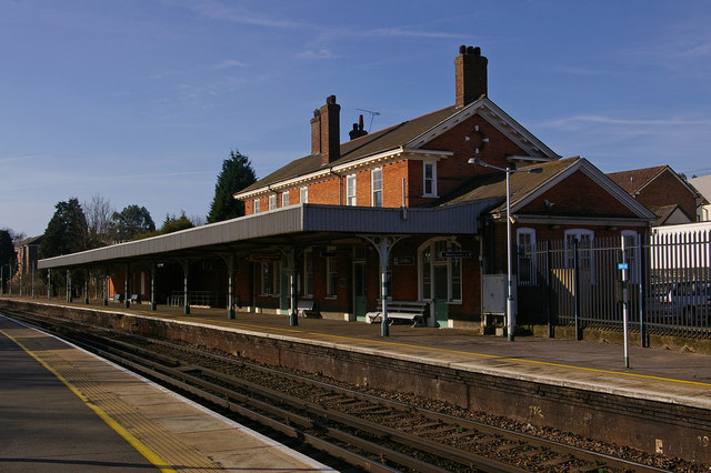 Earlswood Station